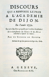 Title page of Jean-Jacques Rousseau's Discours sur les sciences et les arts, Genève, 1750